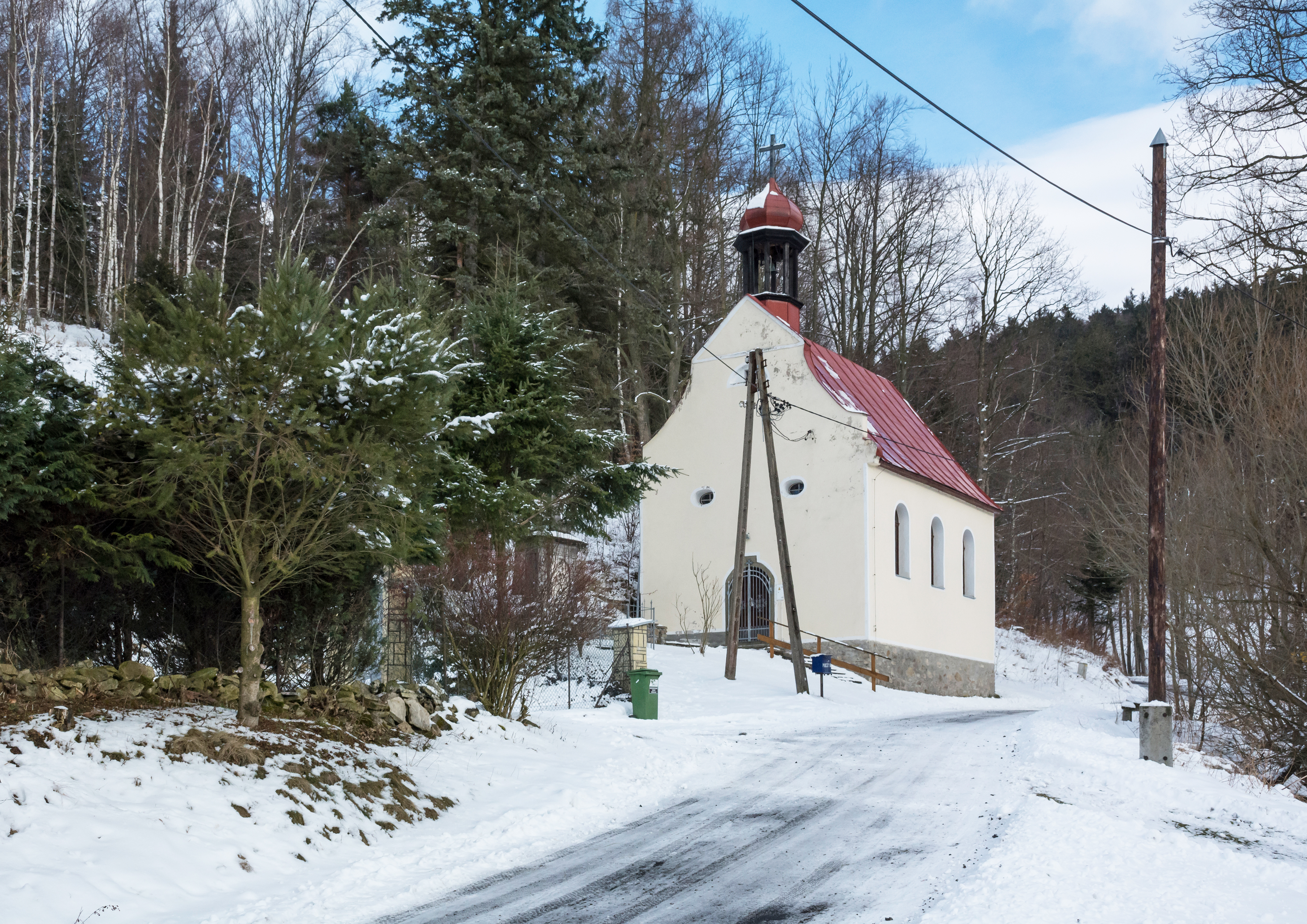 Church of St. Anthony in Wójtówka